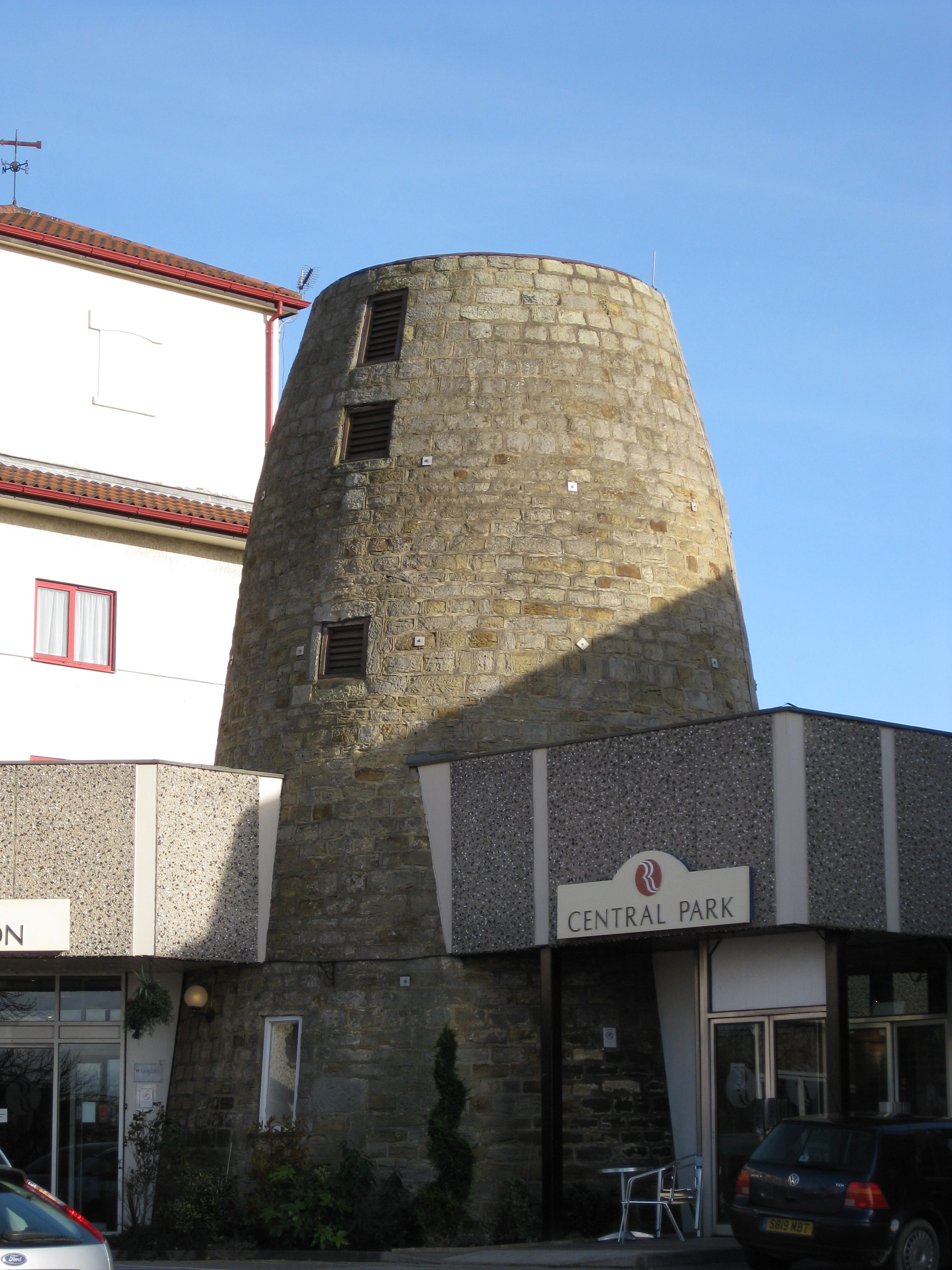 Remains of Windmill, now part of Ramada Hotel, North Millgreen View Ring Road Leeds LS14 5QF.